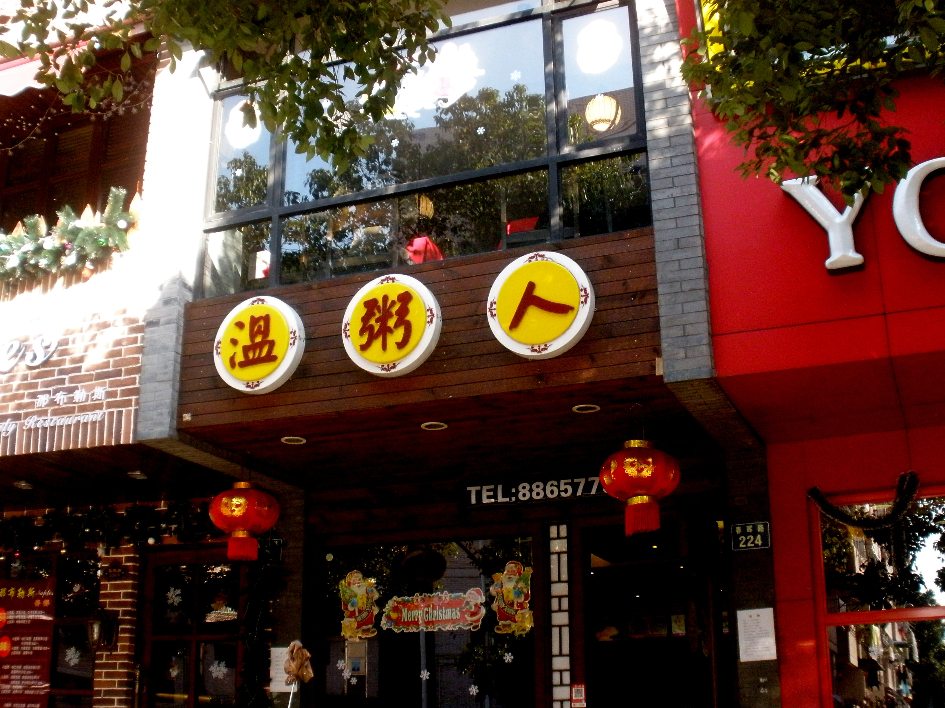 An example of a homophonic pun in Chinese used as a name for a shop which sells porridge. A wordplay is taken on the Wenzhou demonym 溫州人/Wēnzhōurén where it is altered to 溫粥人 (lit. warm-porridge-person). 州/zhōu is replaced with an exact homophone 粥/zhōu meaning porridge.